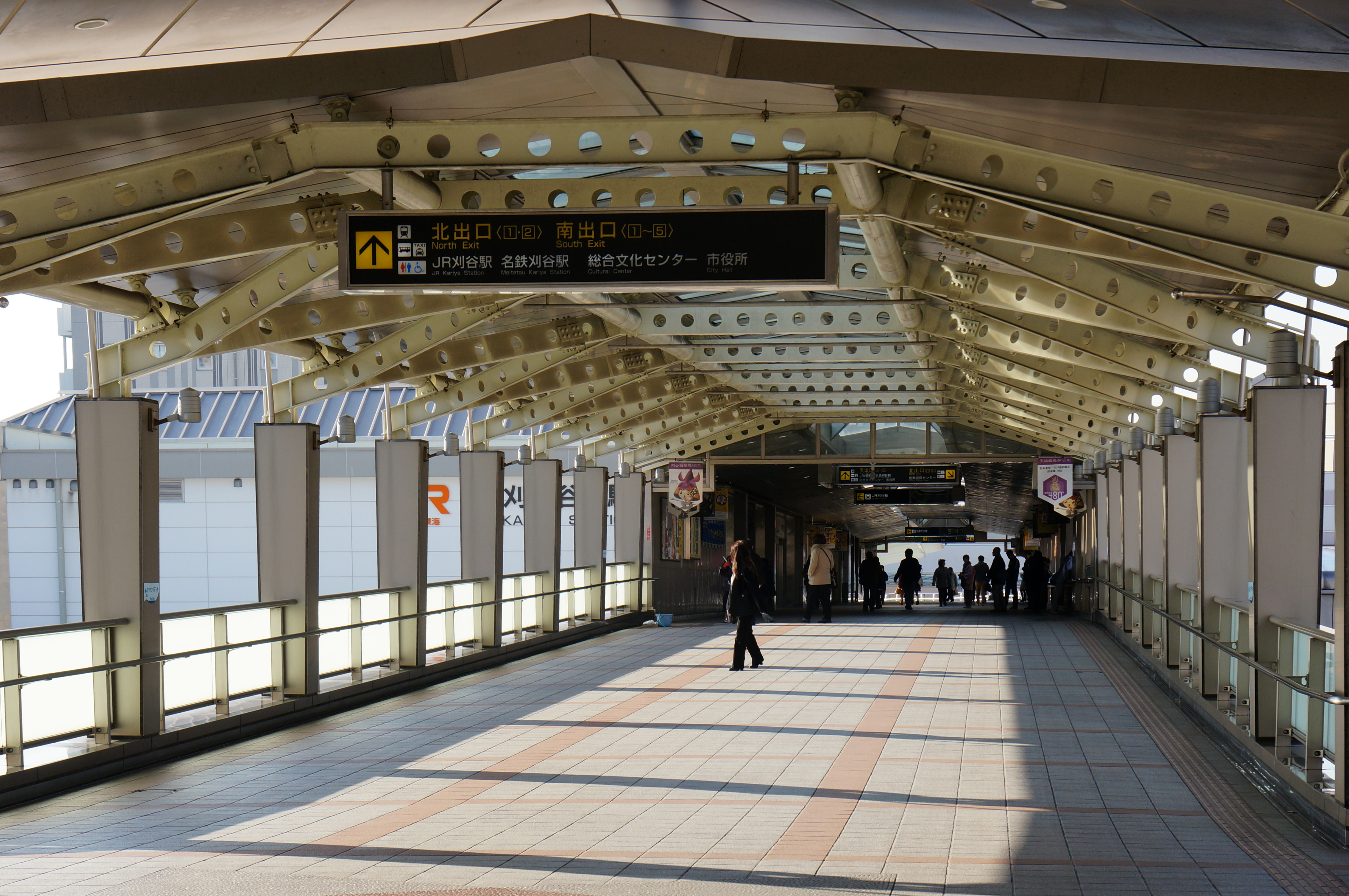 Kariya_Station in Kariya, Aichi prefecture, Japan.